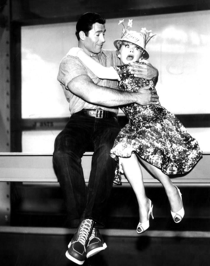 Publicity photo of Lucille Ball and Clint Walker from the television program The Lucy Show. The episode is "Lucy and the Sleeping Beauty". Walker takes Lucy to a skyscraper under construction and Lucy discovers she's afraid of heights while on the girder.